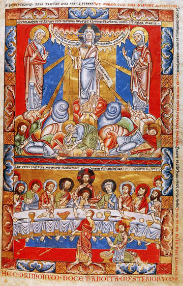 The Floreffe Bible, Meuse valley, southern Netherlands, middle or 3rd quarter of 12th century, 475 x 330 mm.